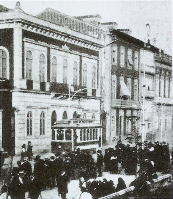 First electric trams in the city of Braga, in Portugal. This photograph was first published in the newspaper Ilustração Católica, on the 31st October 1914.